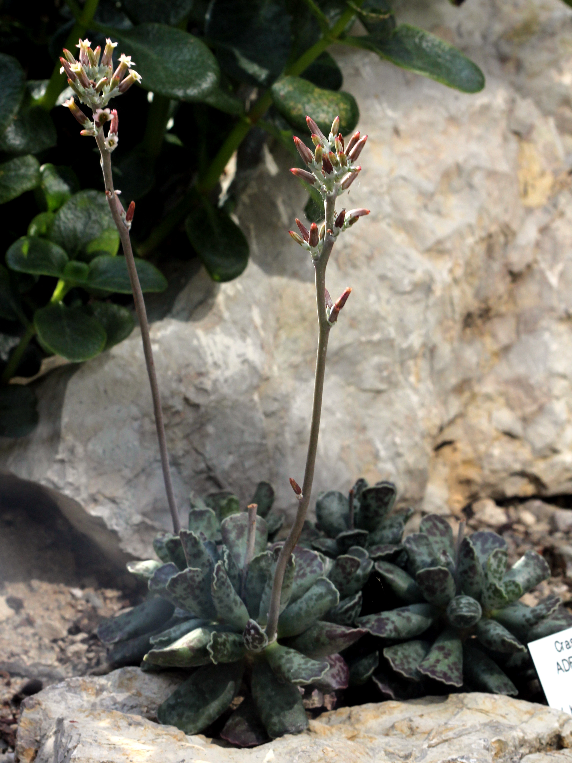 Plant Adromischus cooperi, The Botanical Gardens of Charles University, Prague, Czech Republic